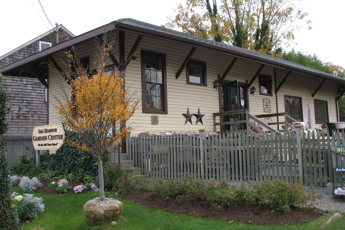 Sag Harbor, New York train station in November 2007